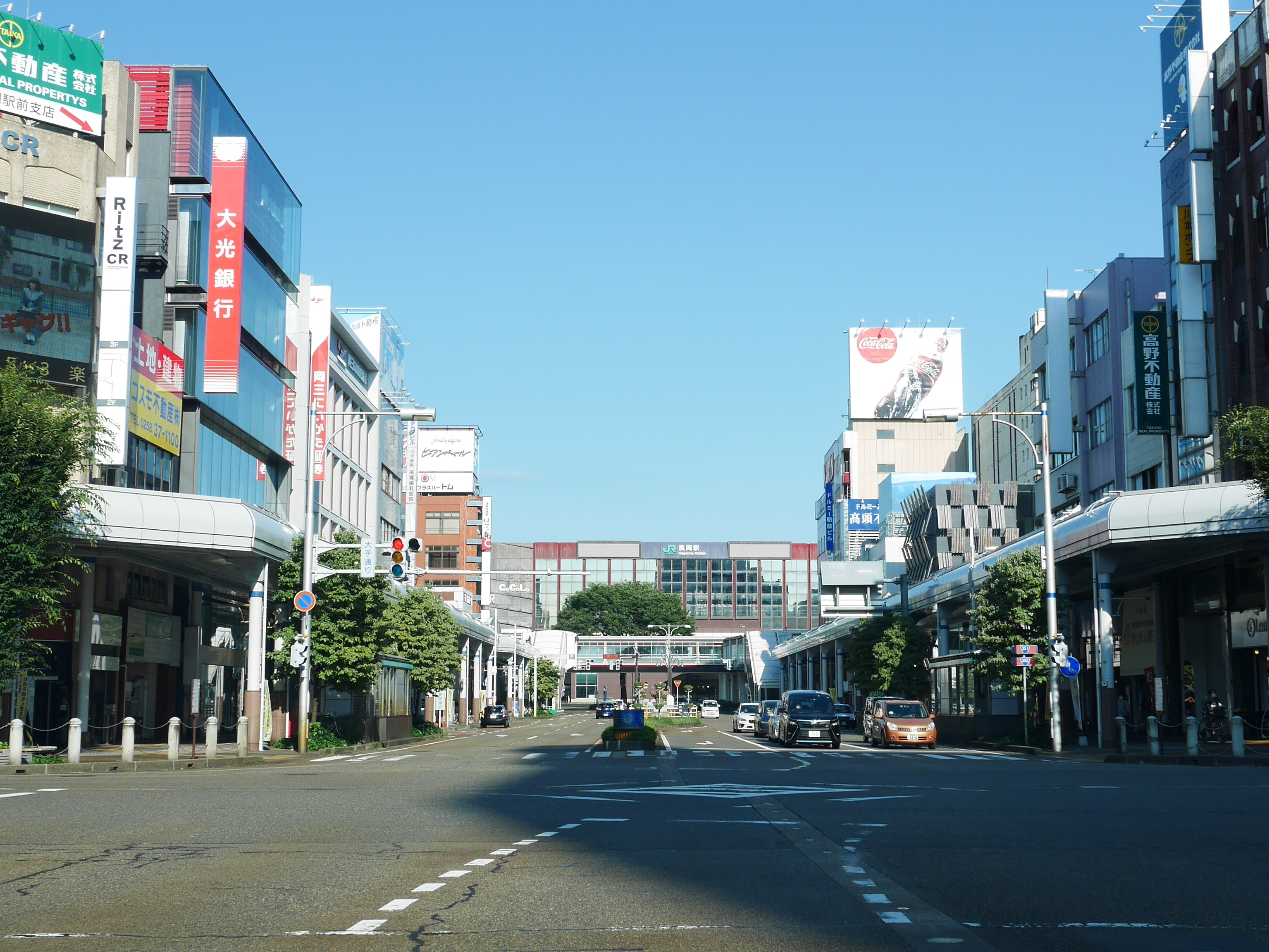 Nagaoka , Niigata , Japan